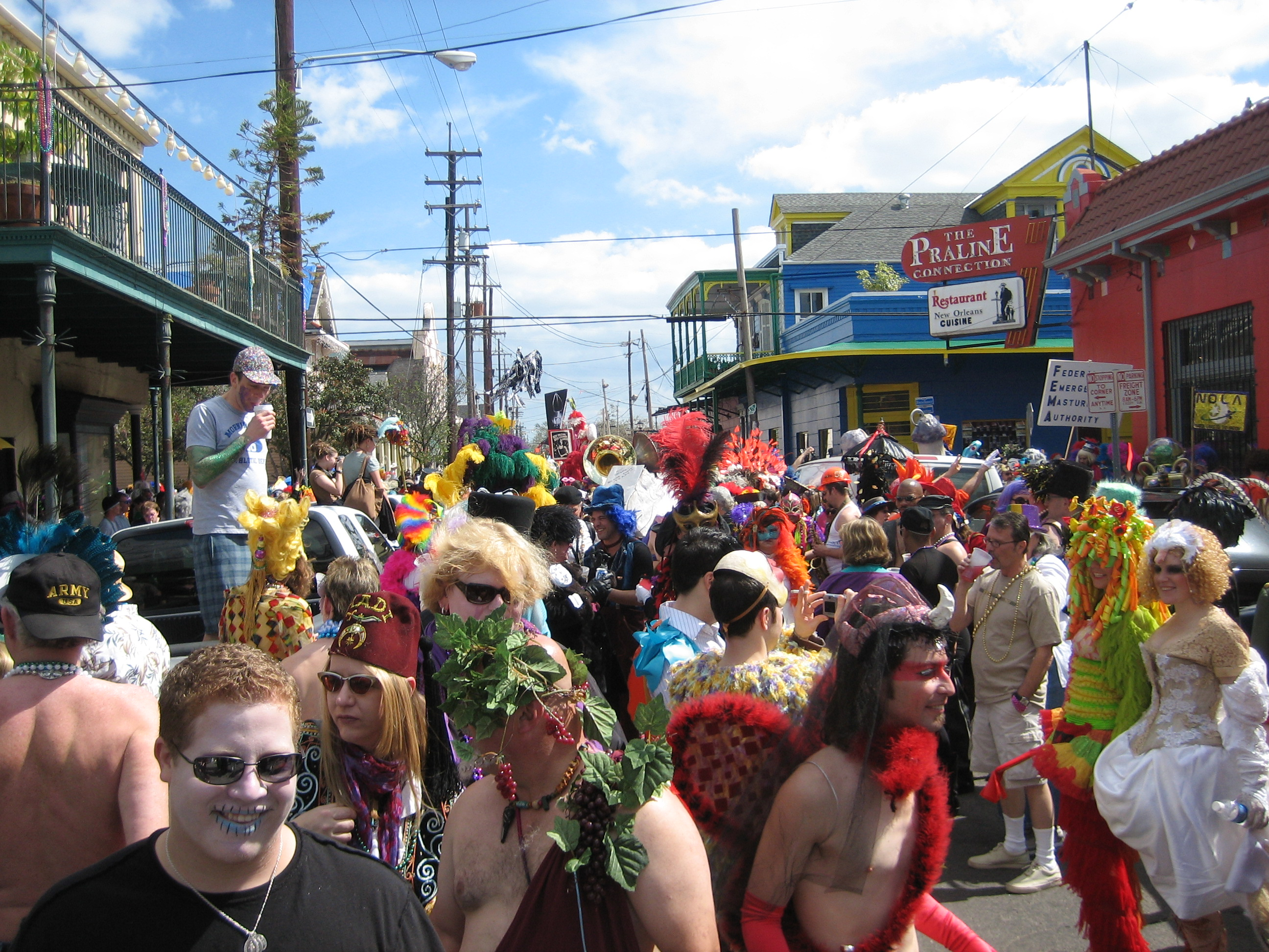 New Orleans, Faubourg Marigny, St. Anne Parade, Mardi Gras Day 2006, on Chartres Street at intersection with Frenchmen. Costumers & musicians.